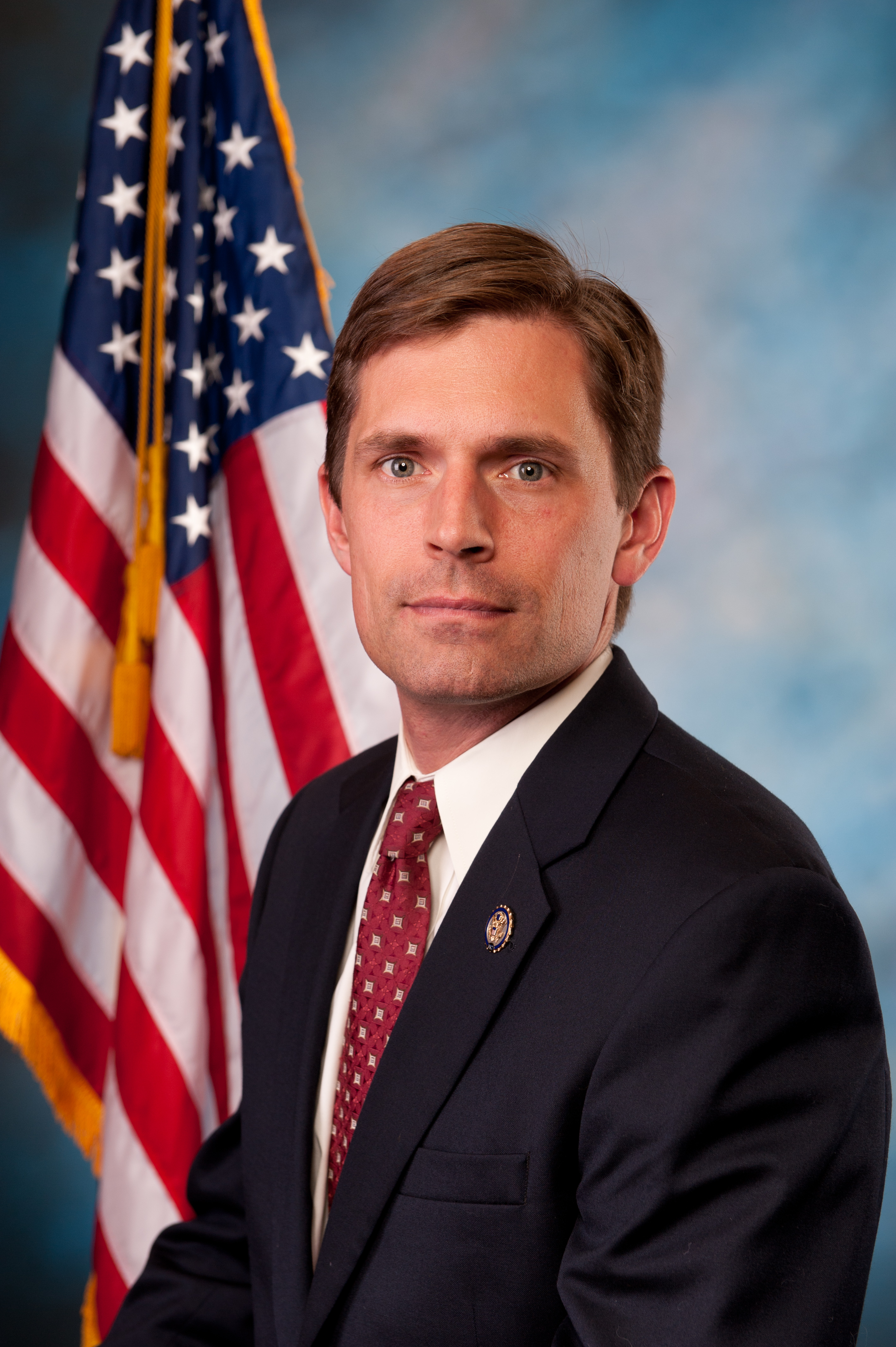 Martin Heinrich official portrait, 2011